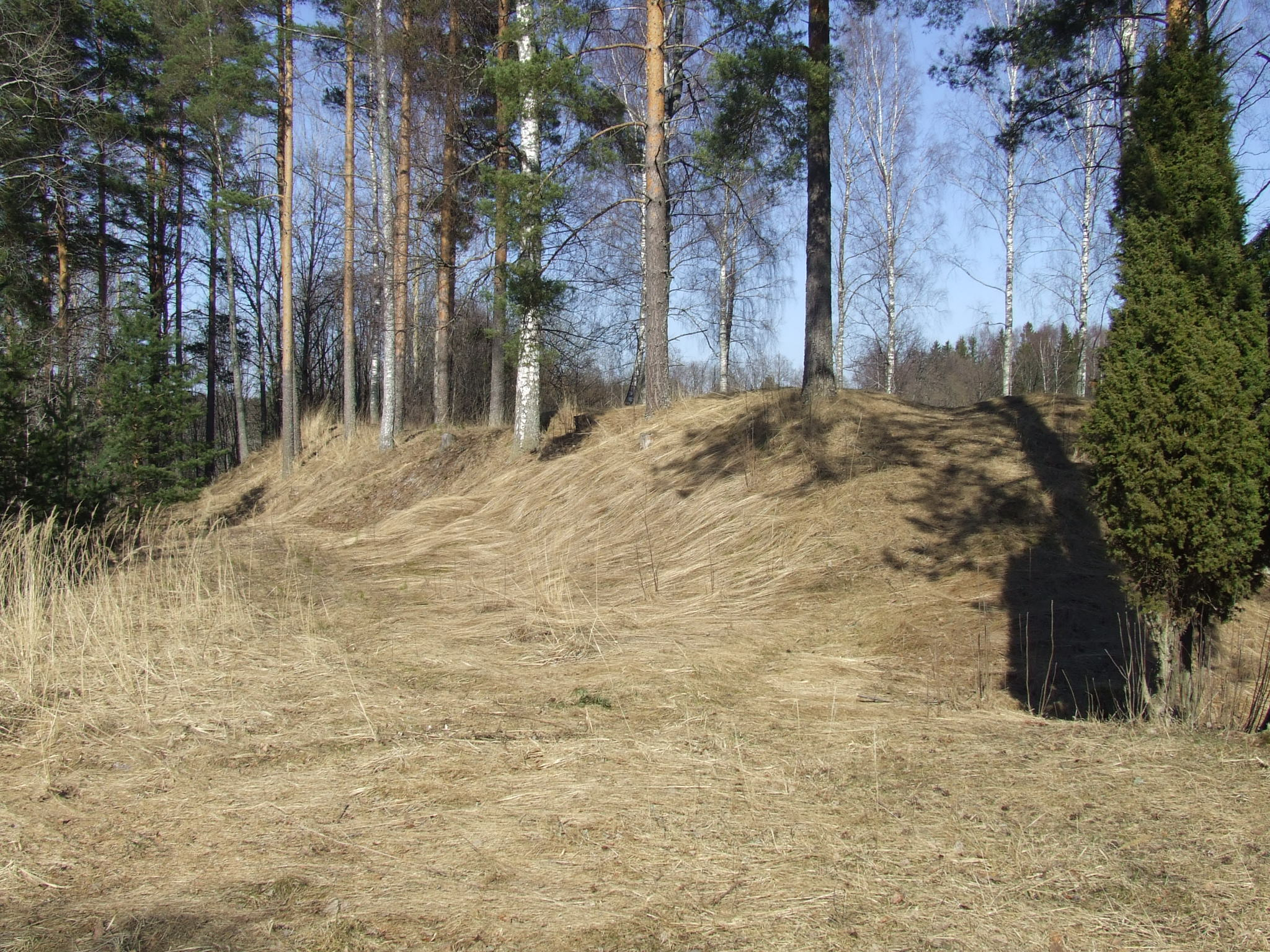 Fortress of Ruotsula in Kouvola, Finland.